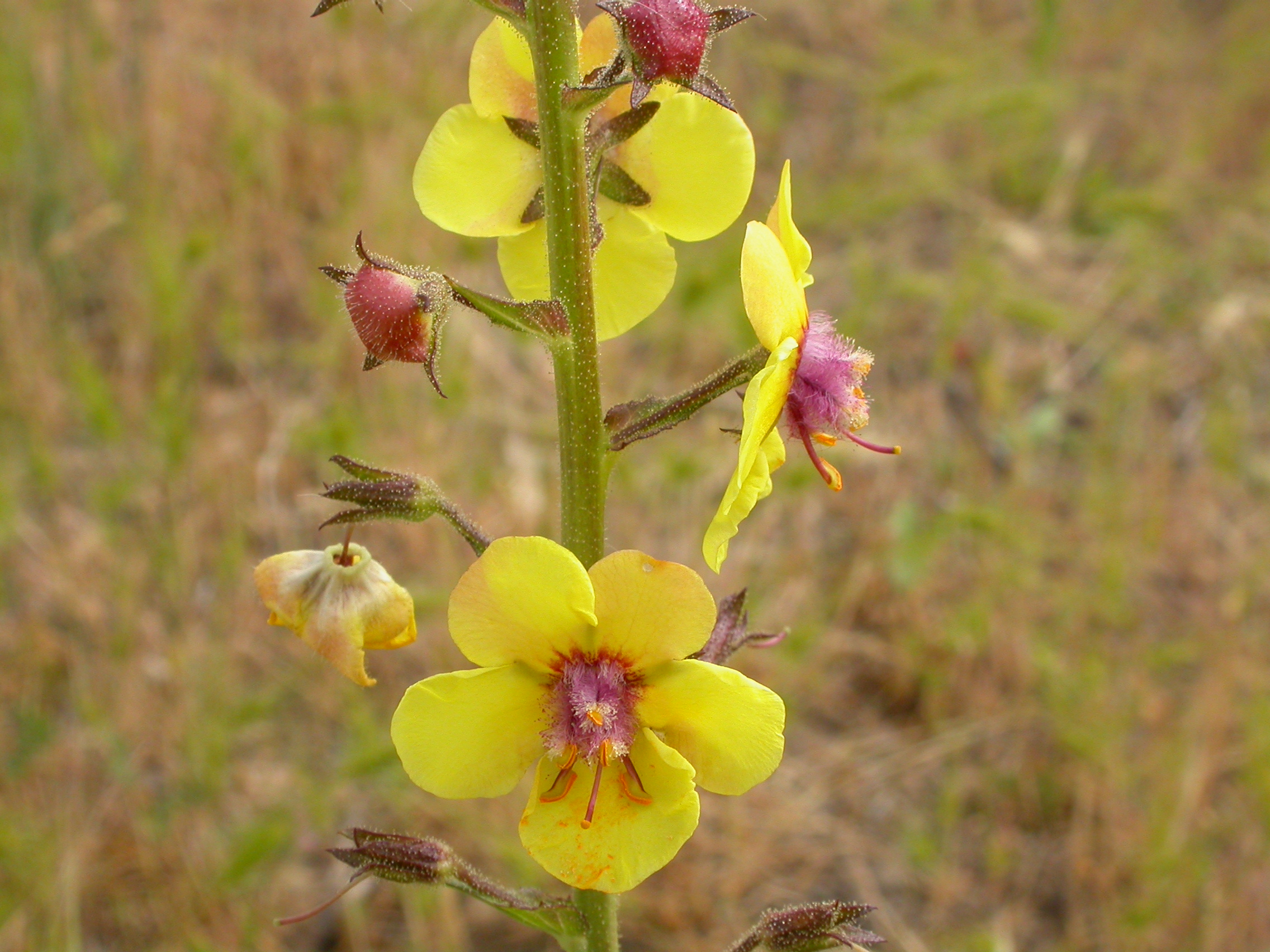 A common introduced species with much more showy yellow flowers and glabrous (hairless) stems and leaves compared to the common mullein.